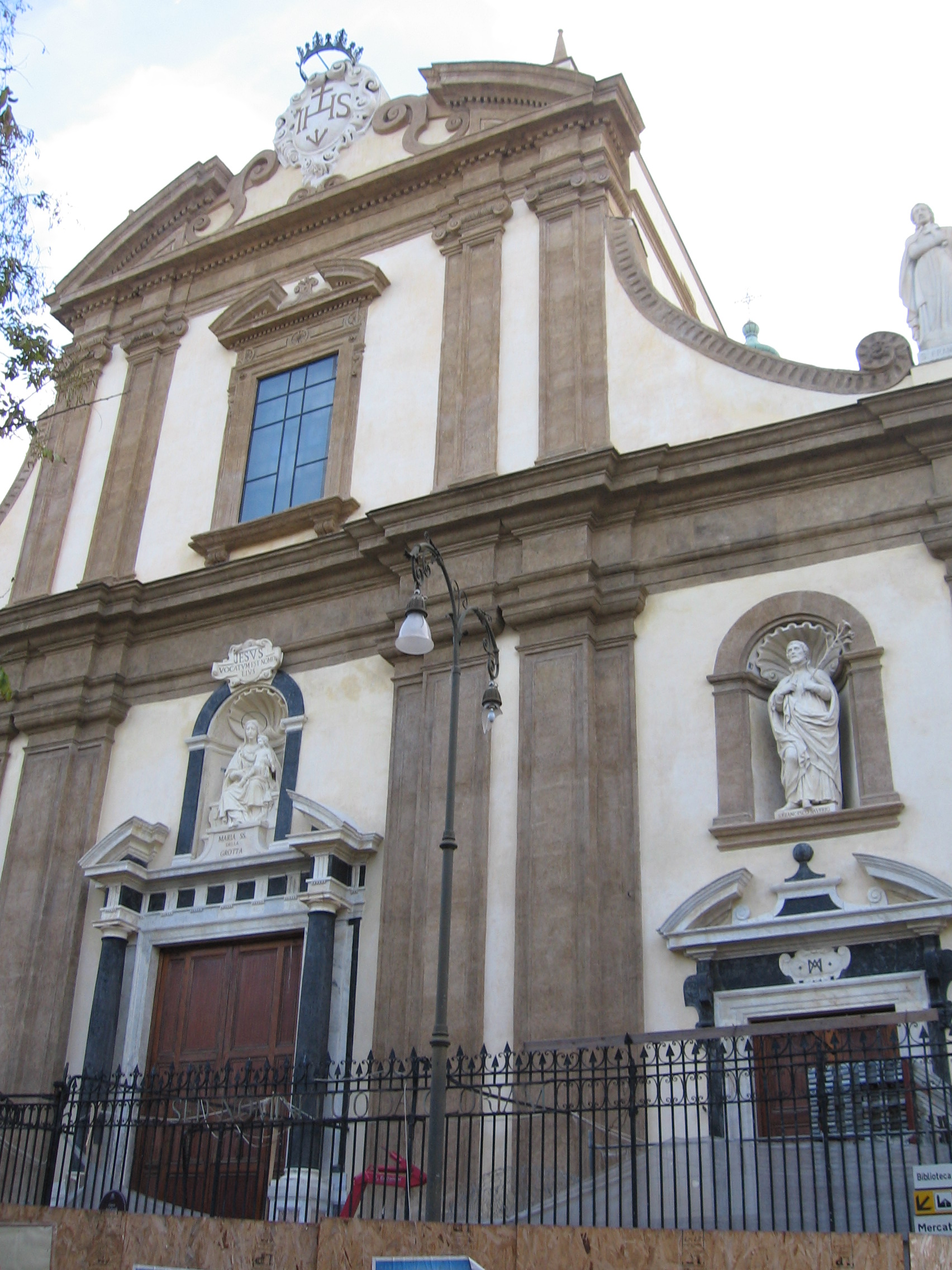 Facade of the Gesù church in Palermo, Sicily (ITALY)